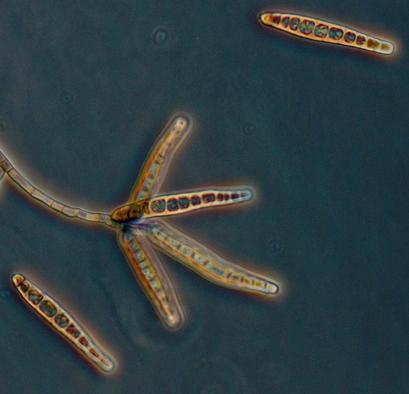 Photomicrograph of Exserohilum rostratum